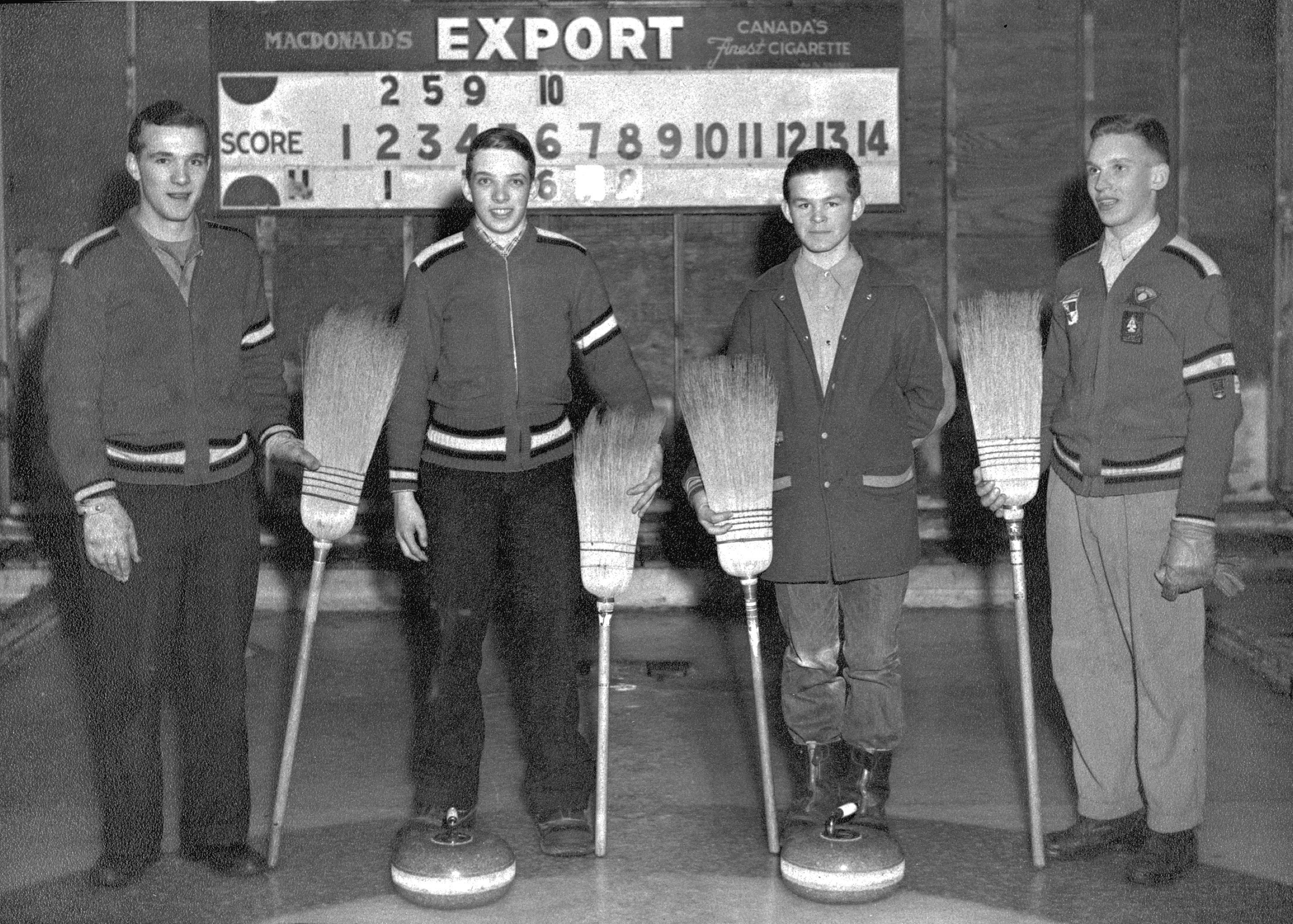 Cold Lake Curling Club School, Alberta Provincial Archives of Alberta, A9567